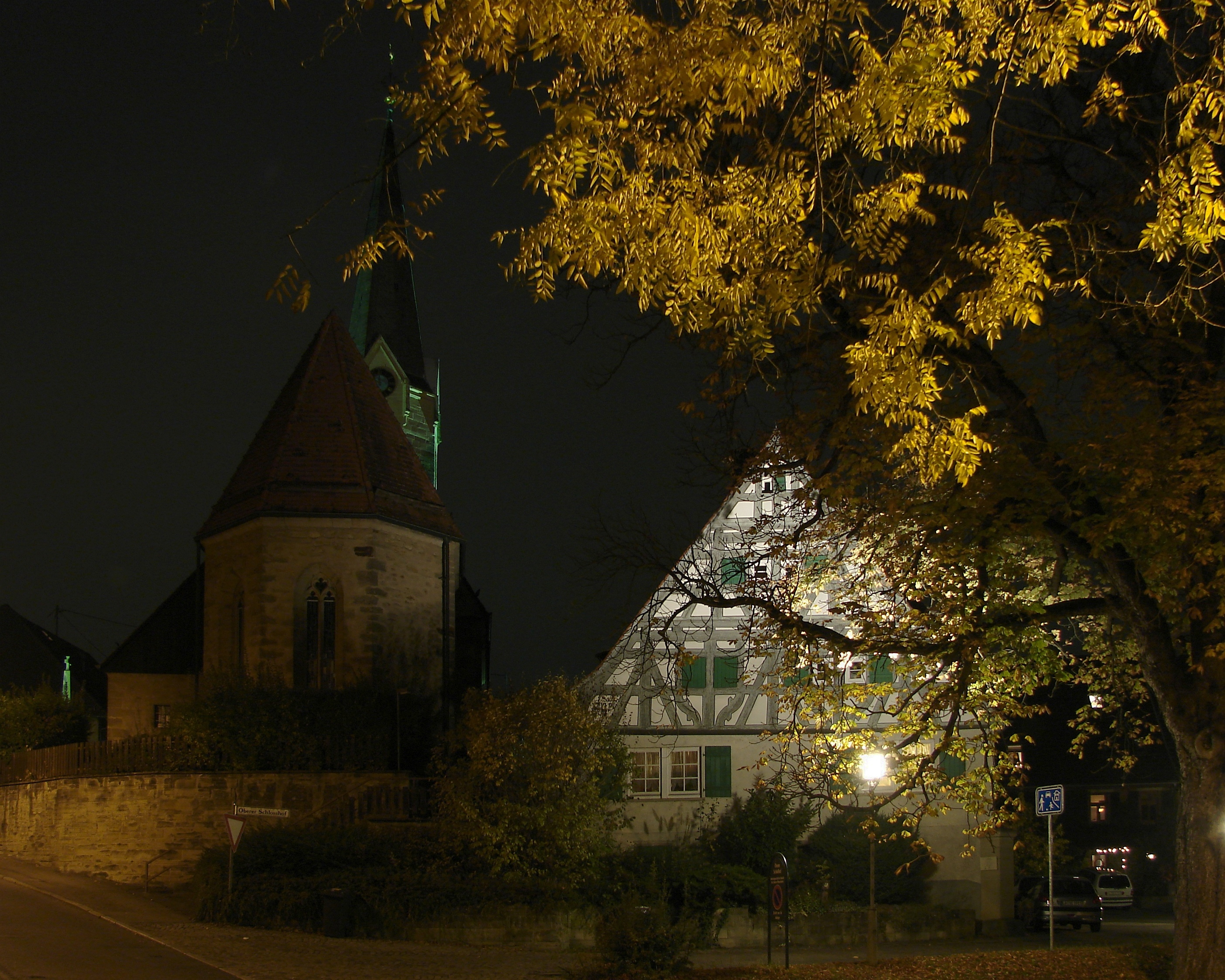 Freiberg_am_Neckar, Germany, gothic St. Nikolaus church and part of upper castle